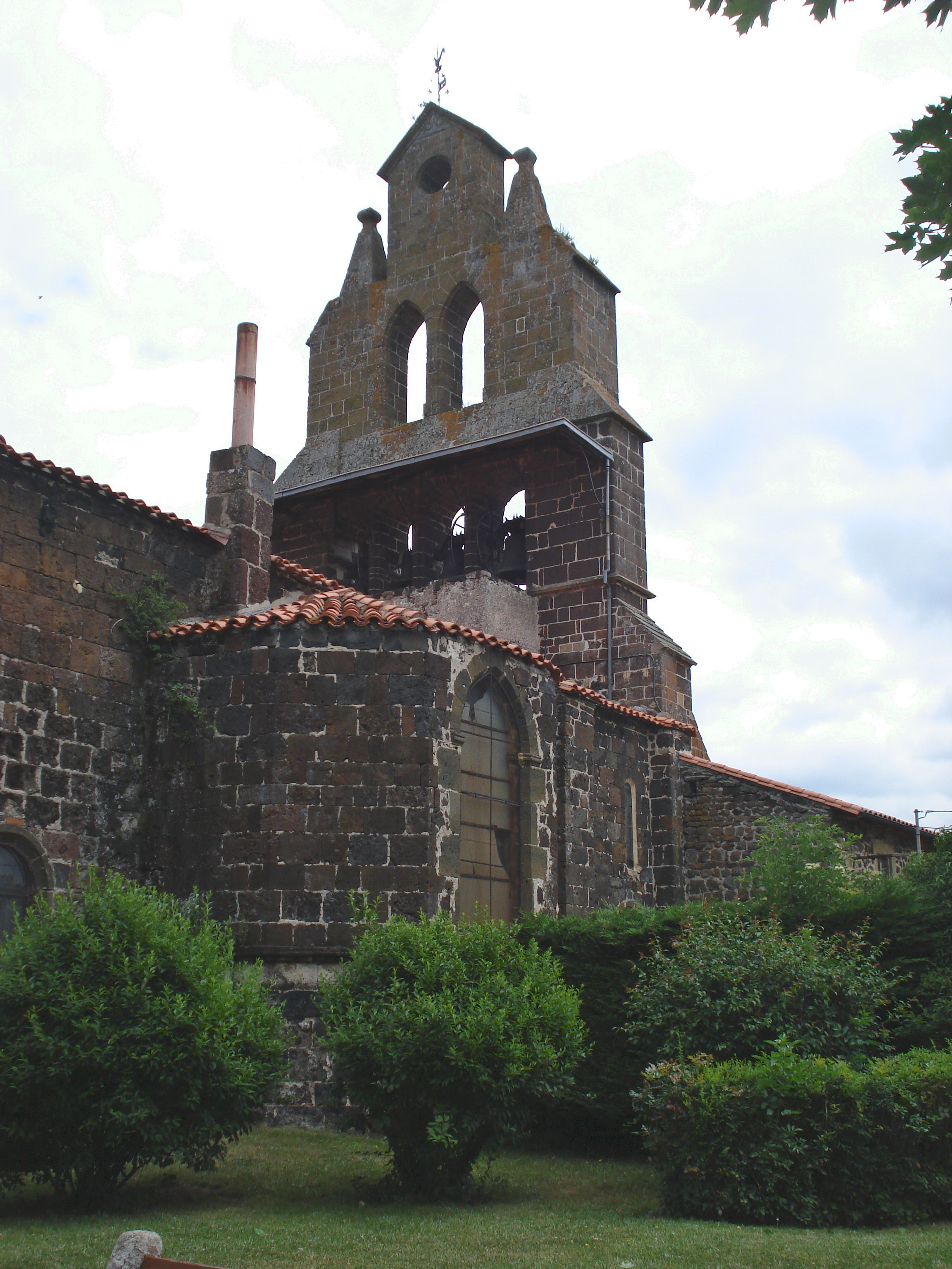 Solignac-sur-Loire (Haute-Loire, Fr), bell gable of the church.